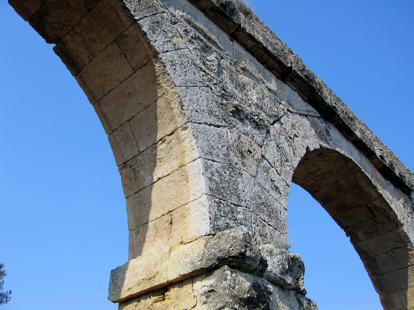 Detail of the “Aqüeducte de les Ferreres” near Tarragona (Catalonia).